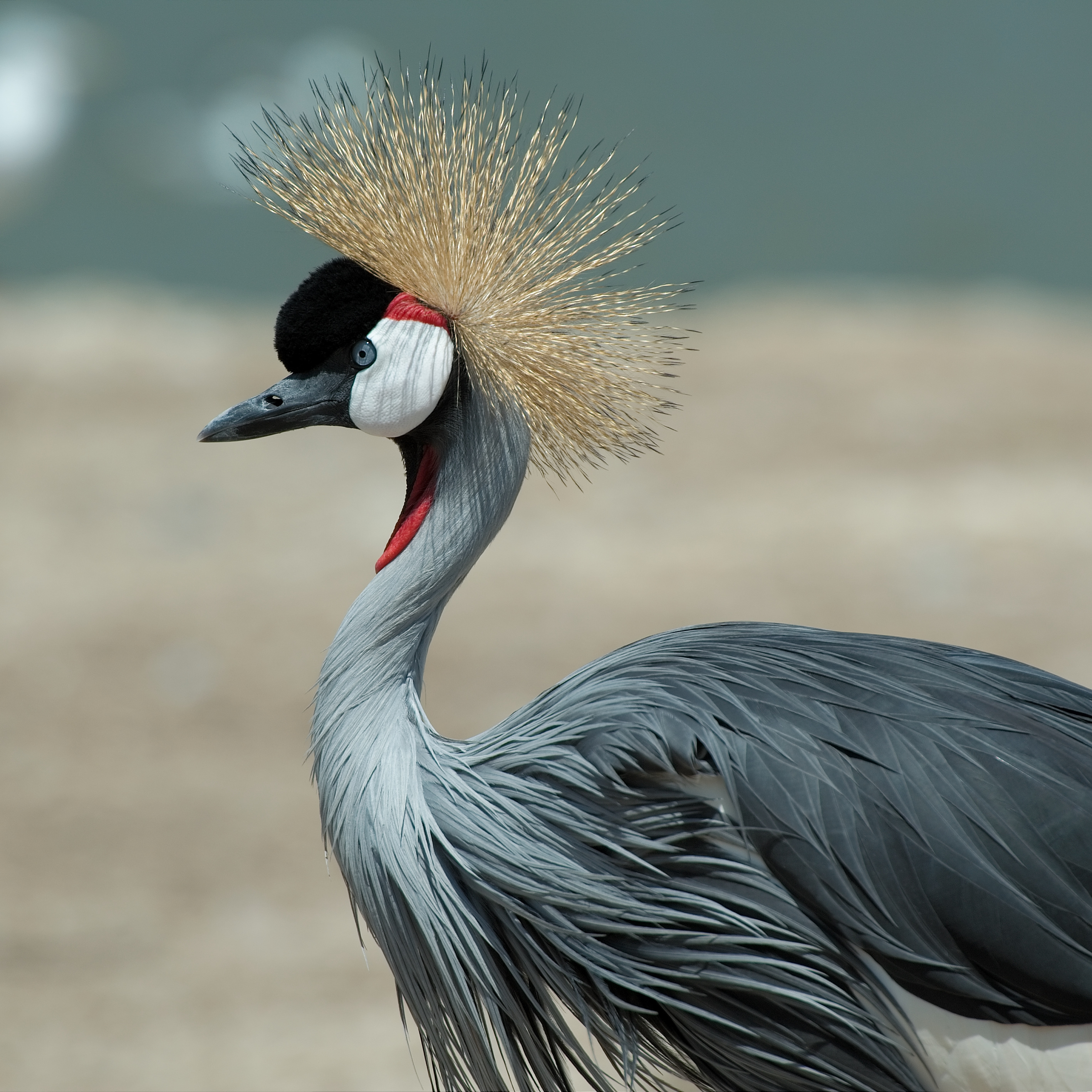 Grey crowned crane in the African Wildlife Park in Sigean, France